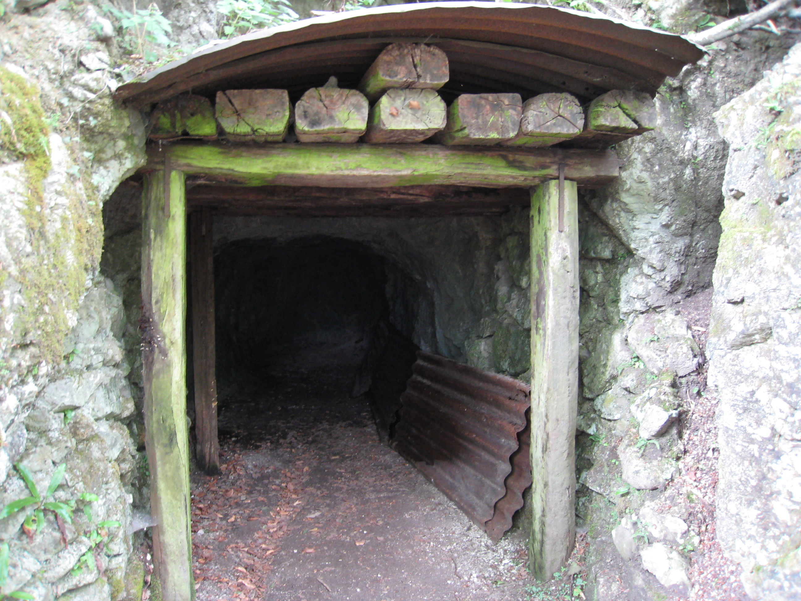 Kobarid was featured prominently during the horrors of WWI in Hemingway's "A Farewell to Arms" when the city was Italian and known as Caporetto.